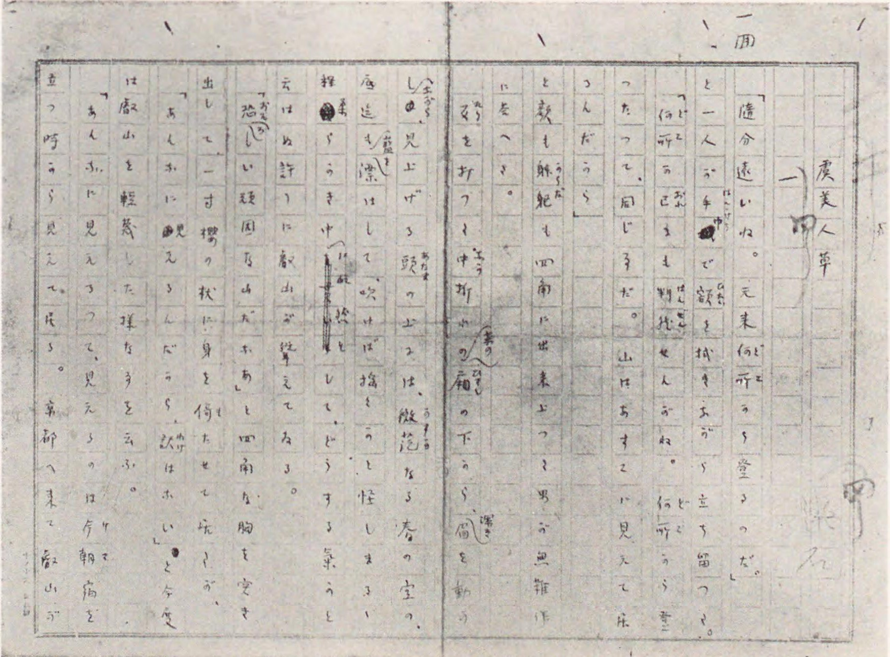 Part of manuscripts of "The Poppy" by Natsume Soseki.